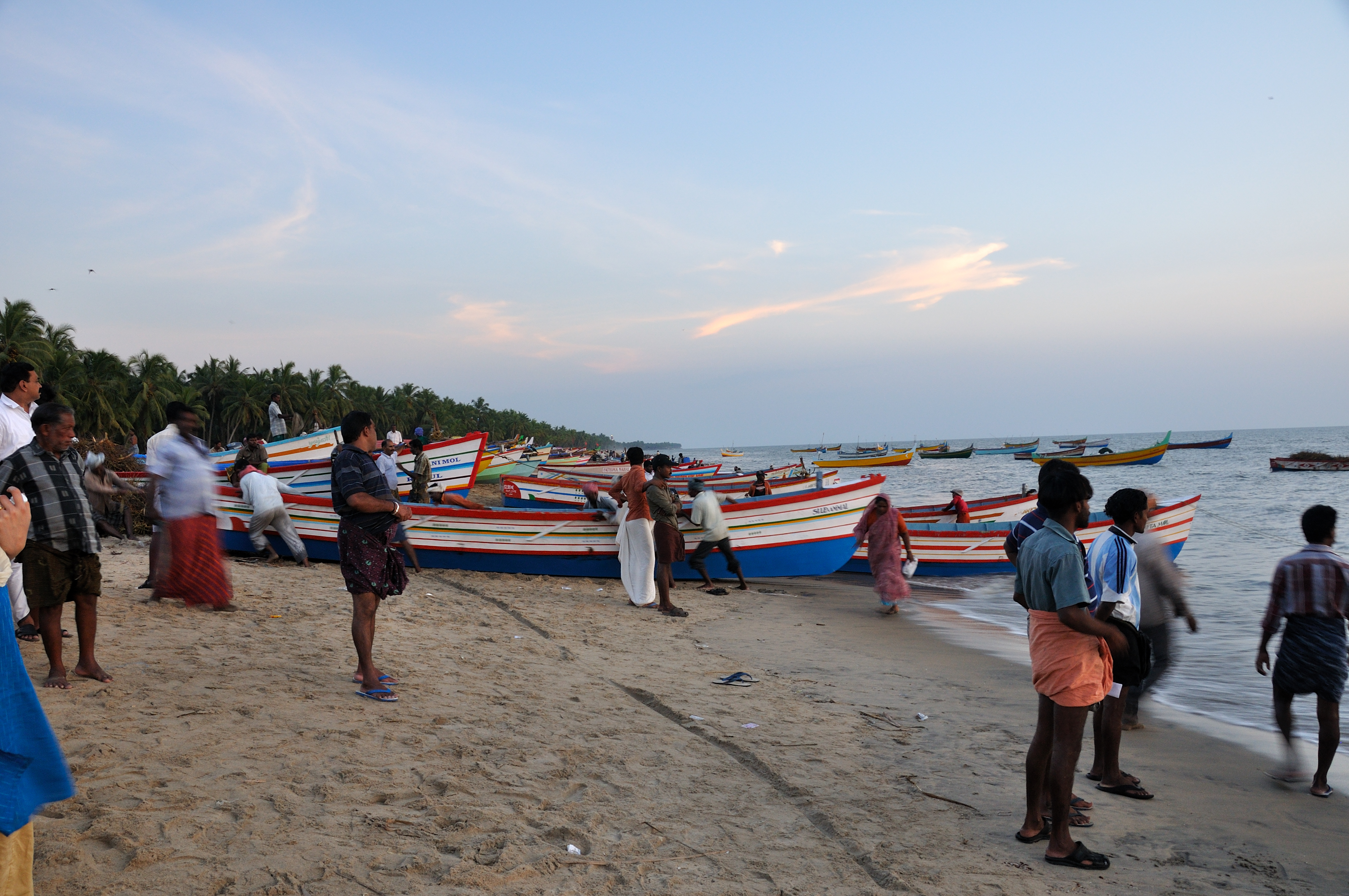 Chavakkad Beach, Kerala